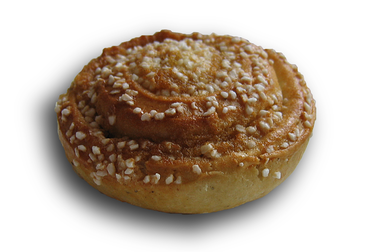 Pulla